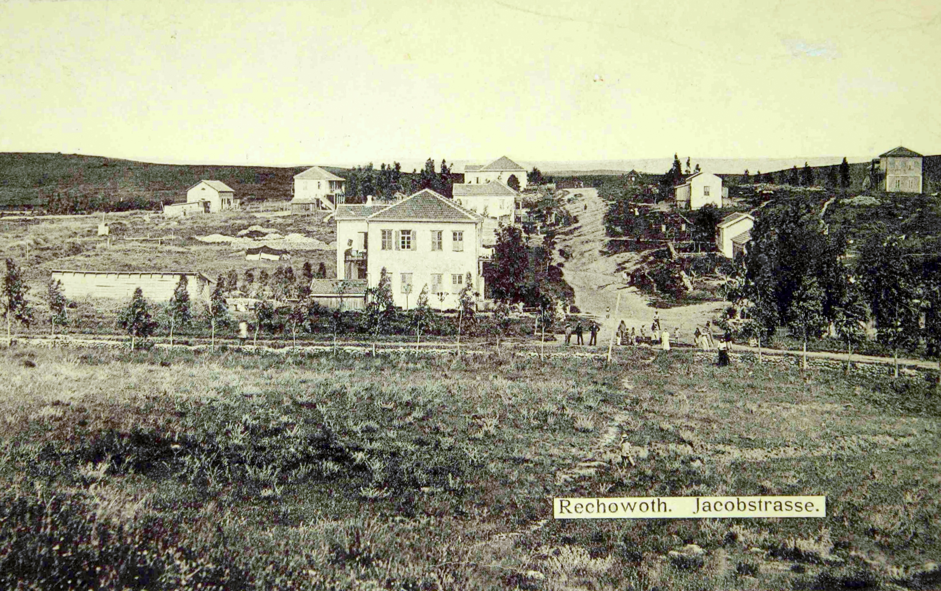 Jacob Street of the Colony Rehovot 1893